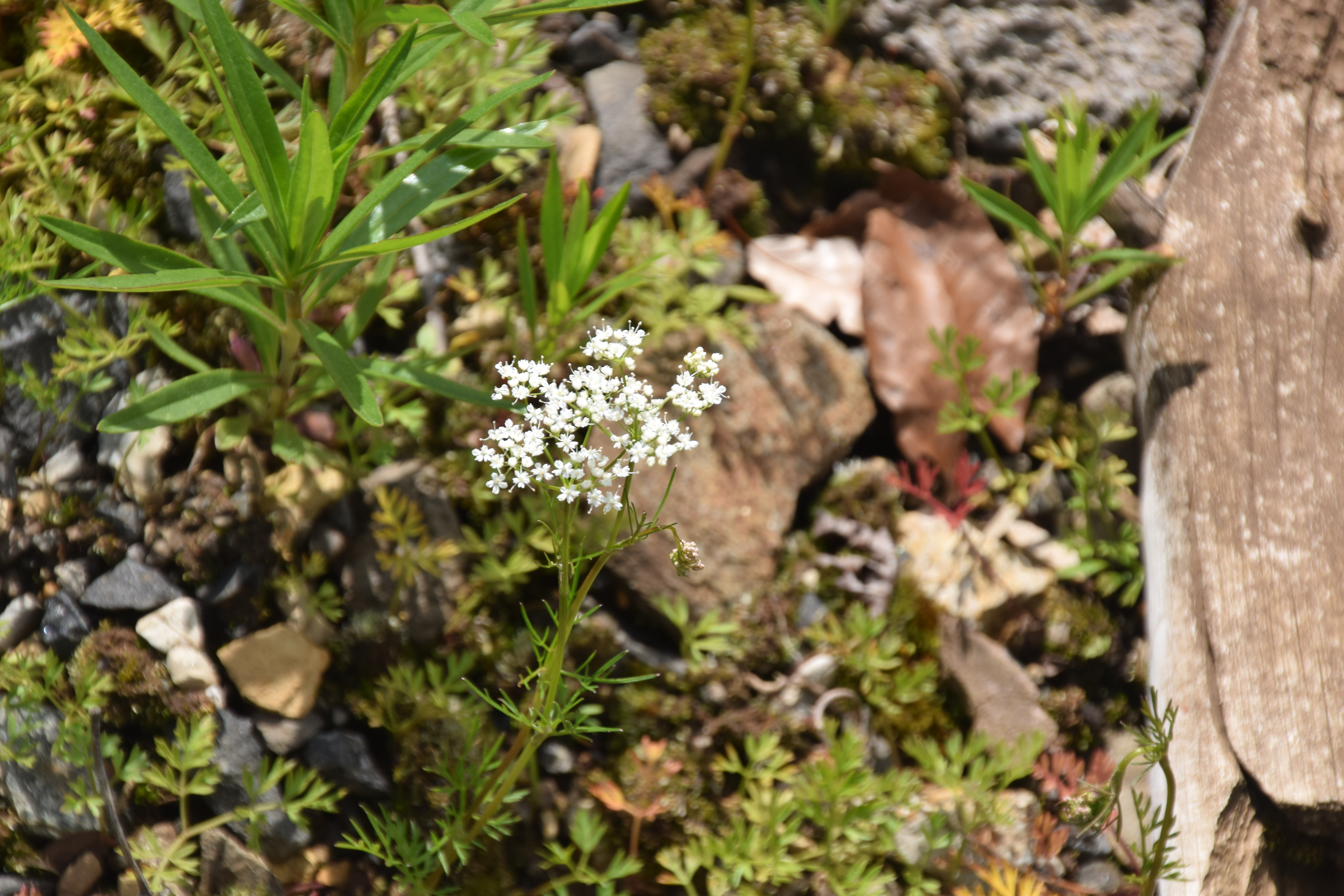 Conopodium majus in Jardin Botanique de l'Aubrac, Saint-Chély-d'Aubrac, Aveyron,France